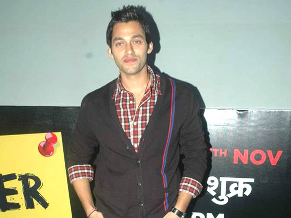 Sumit Vats at launch party of Zee TV new serial "Hitler Didi"